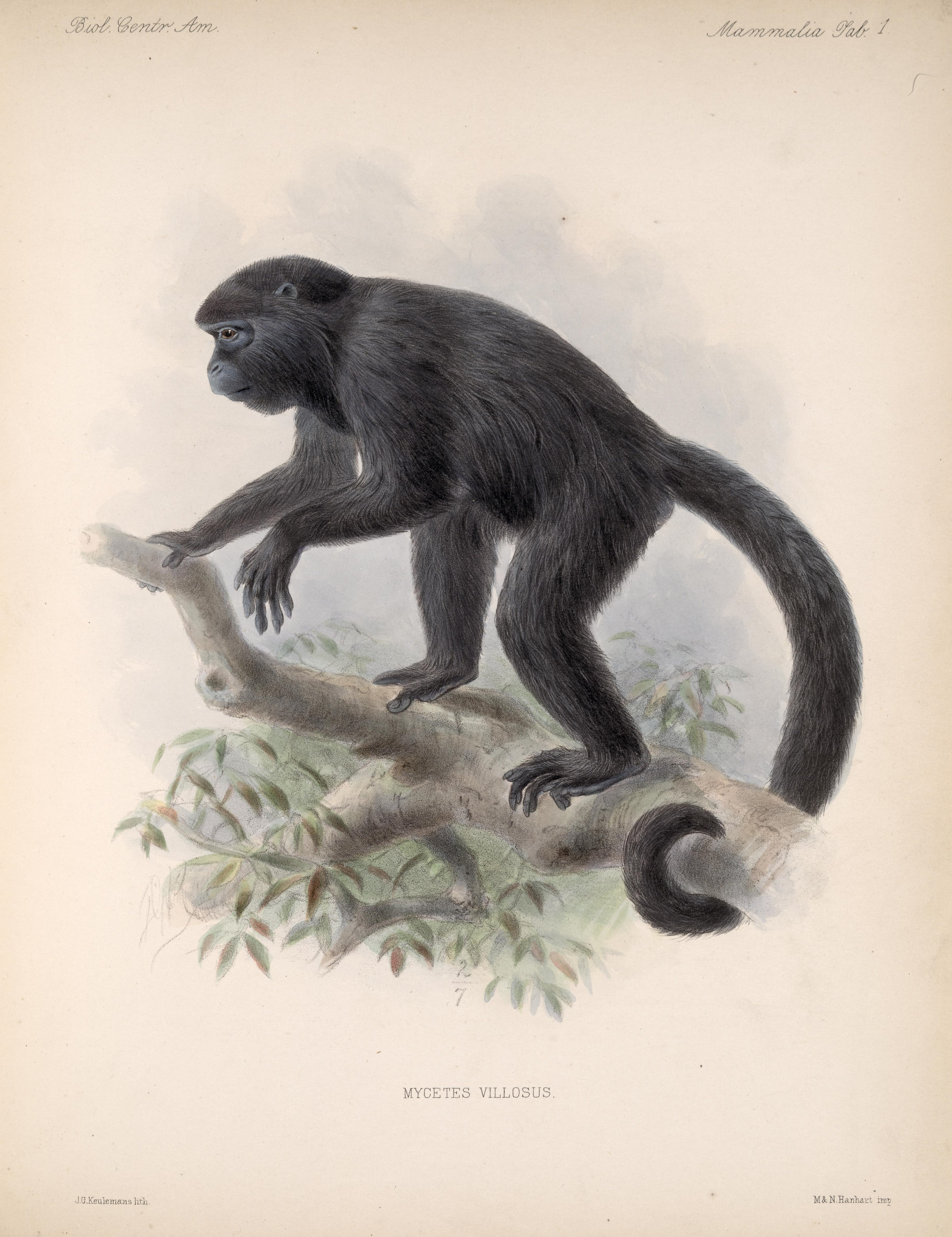 An illustration of Mycetes villosus (now known as Alouatta pigra?)